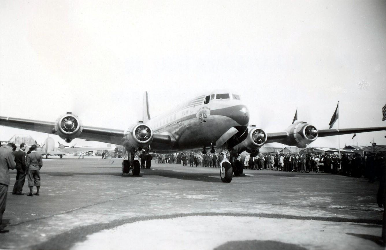 KLM PH-TAR Douglas DC-4-1009 c/n 42923 photo taken Schiphol 21-5-1946